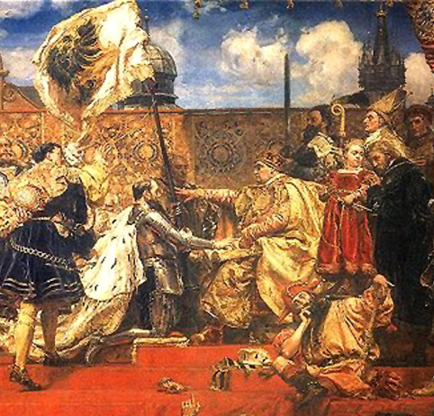 The Prussian Homage by Jan Matejko (1882)